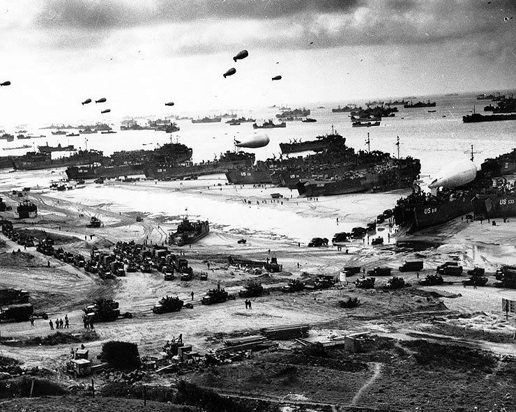 Transwiki approved by: User:Dmcdevit This image was copied from en. The original description was: LST-310 (2nd LST from the right) along with other ships putting cargo ashore on one of the invasion beaches, at low tide during the first days of the Invasion of Normandy in June 1944. Among identifiable ships present are LST-532 (in the center of the view); LST-262 (3rd LST from right); LST-533 (partially visible at far right); and LST-524. Note the barrage balloons overhead and Army "half-track" convoy forming up on the beach. US Coast Guard photo # 26-G-2517 from the US Coast Guard collection in the US National Archives.